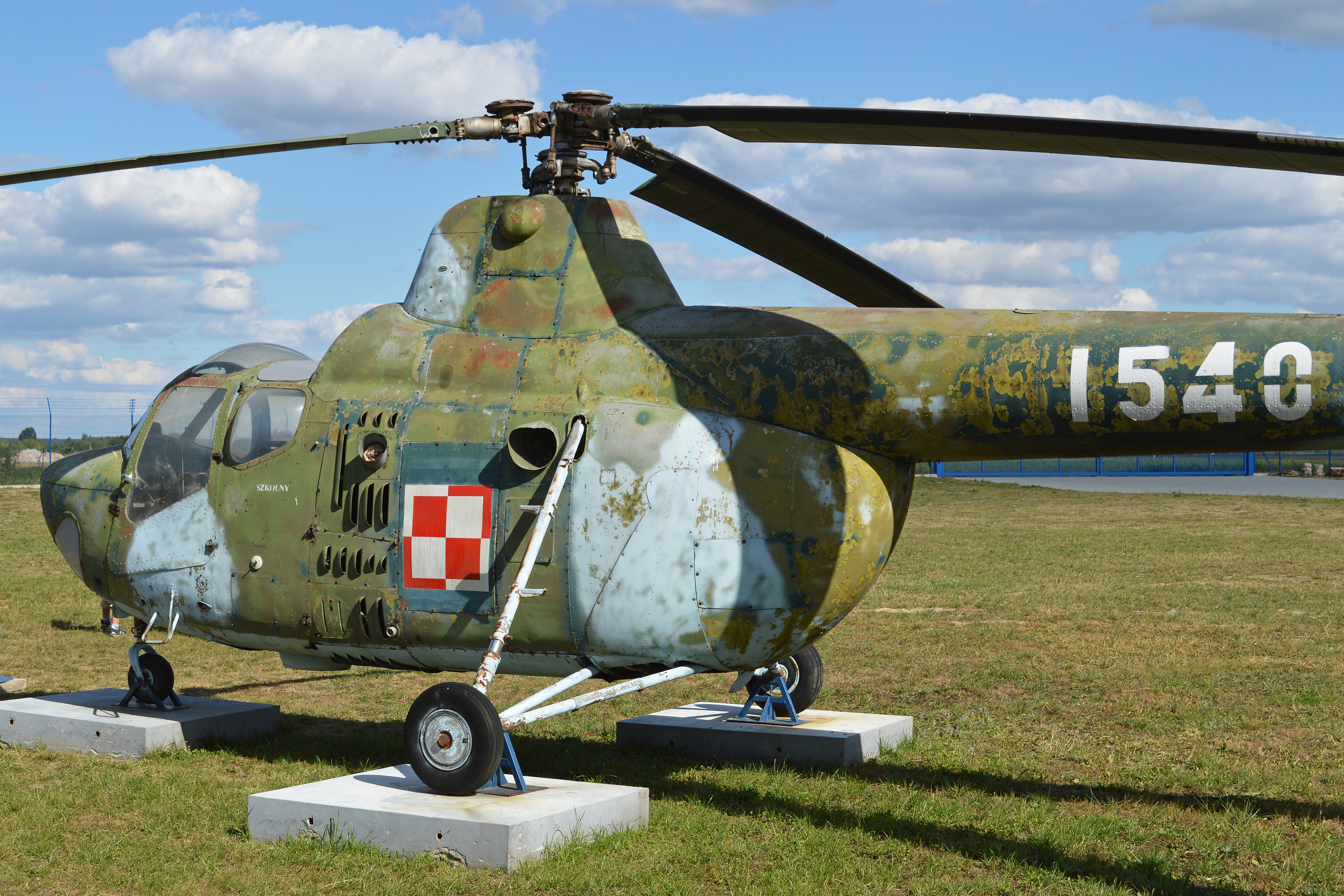 The SM-1 was a Polish built Mil-1 'Hare'. The '/300' was the initial Polish production version, powered by a LiT-3 radial piston engine. Actual serial '5005'. c/n S115005. On display at the Muzeum Sit Powietrznych. Deblin, Poland. 25-8-2013